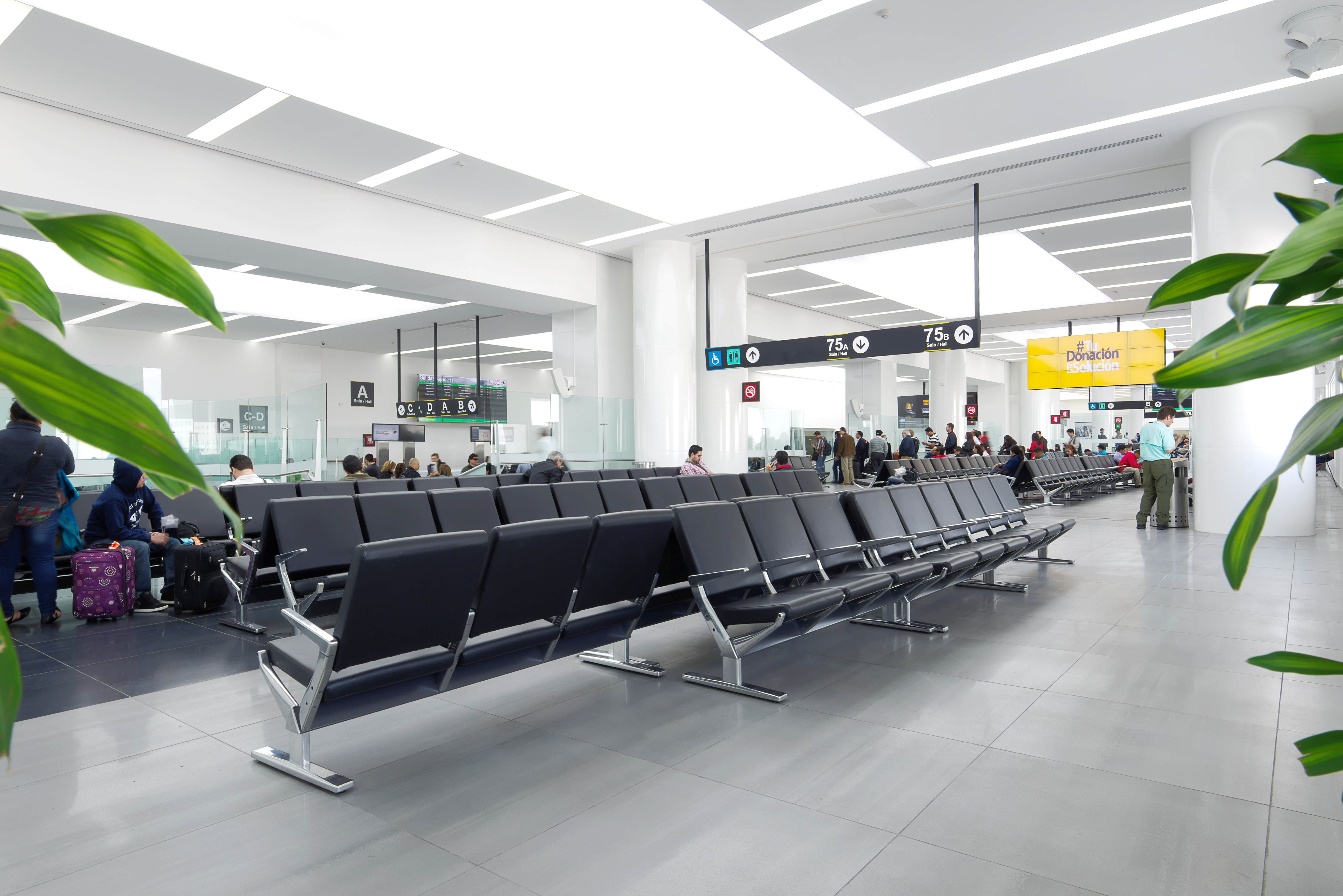 Mexico City International Airport, terminal 2, hall 75